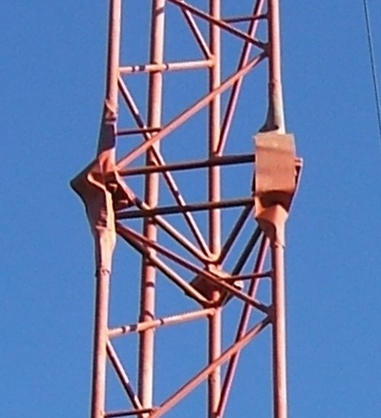 Closeup of joint between mast sections of antenna tower of AM radio station KBRC, located in Mount Vernon, Washington State, USA. The steel lattice antenna towers of AM radio stations like this function as mast radiators; the radio current from the transmitter is applied directly to the mast, and the whole mast serves as the antenna. The tower is assembled from sections that are bolted together. To ensure that the entire tower is a single conductor, the sections are bonded electrically at the joints with short jumpers. In this case, copper strips have been soldered between the vertical risers.